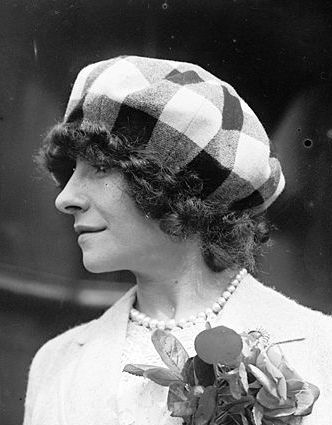 Polaire departing after her American tour, September 1910. Closeup of head showing her wearing short hair, brimless hat and pearl necklace.